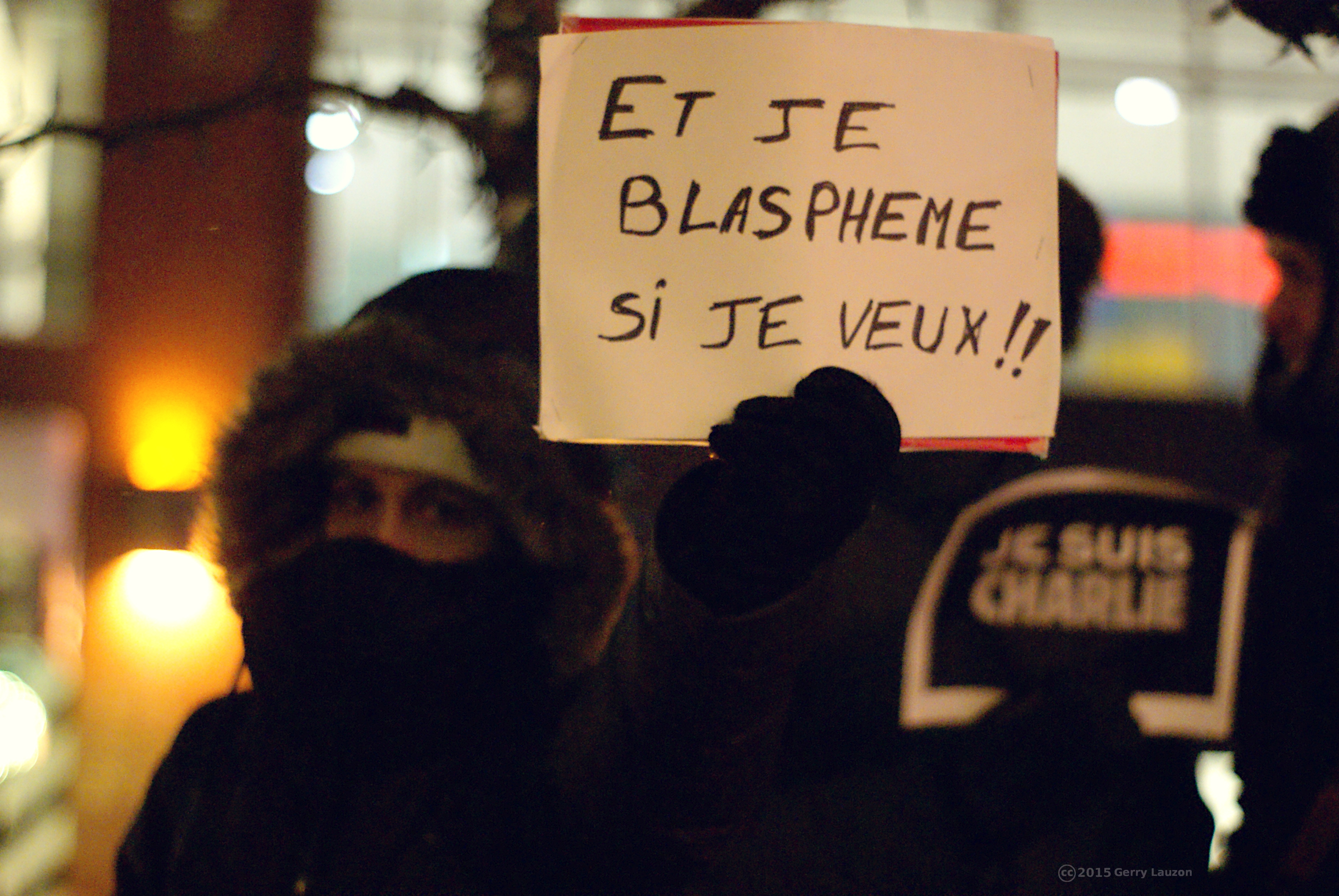 Taken at the vigil in front of the French consulate in Montreal on a -26C evening. Je suis Charlie. Montreal rally in support of the victims of the 2015 Charlie Hebdo shooting